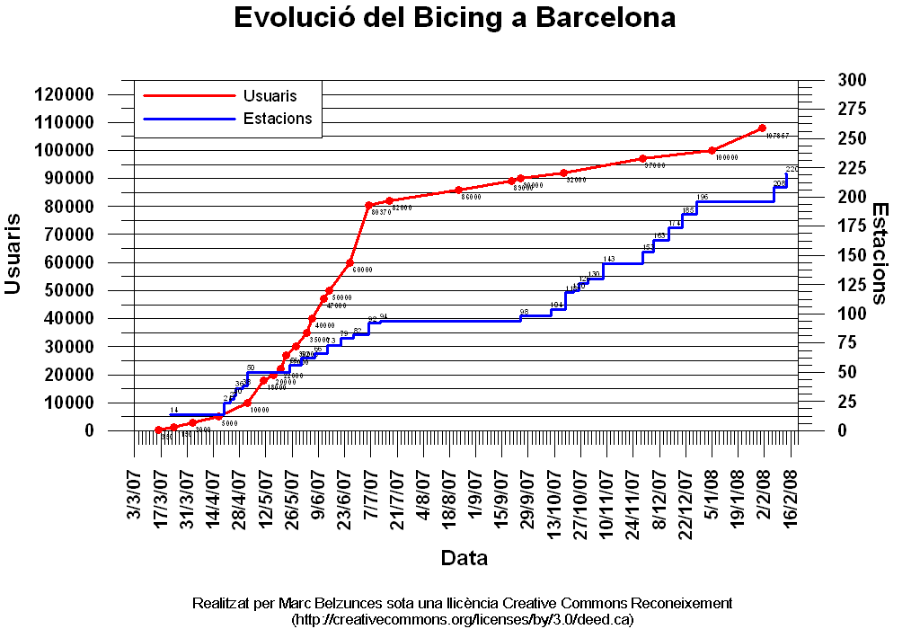 Gràfic mostrant l'evolució del bicing a Barcelona / Graph showing Bike sharing program evolution in Barcelona